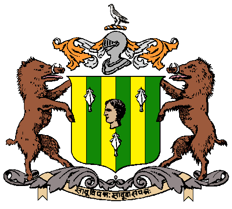 Jhabua State Coat of Arms; Motto: Jhabuvipannah jhabuva sampannah This work is in the public domain in India because its term of copyright has expired. The Indian Copyright Act applies in India, to works first published in India. According to The Indian Copyright Act, 1957 (Chapter V Section 25), Anonymous works, photographs, cinematographic works, sound recordings, government works, and works of corporate authorship or of international organizations enter the public domain 60 years after the date on which they were first published, counted from the beginning of the following calendar year (ie. as of 2016, works published prior to 1 January 1956 are considered public domain). Posthumous works (other than those above) enter the public domain after 60 years from publication date. Any other kind of work enters the public domain 60 years after the author's death. Text of laws, judicial opinions, and other government reports are free from copyright. Photographs created before 1958 are in the public domain 50 years after creation, as per the Copyright Act 1911. This file may not be in the public domain outside India. The creator and year of publication are essential information and must be provided. See Wikipedia:Public domain and Wikipedia:Copyrights for more details. This image shows a flag, a coat of arms, a seal or some other official insignia. The use of such symbols is restricted in many countries. These restrictions are independent of the copyright status.